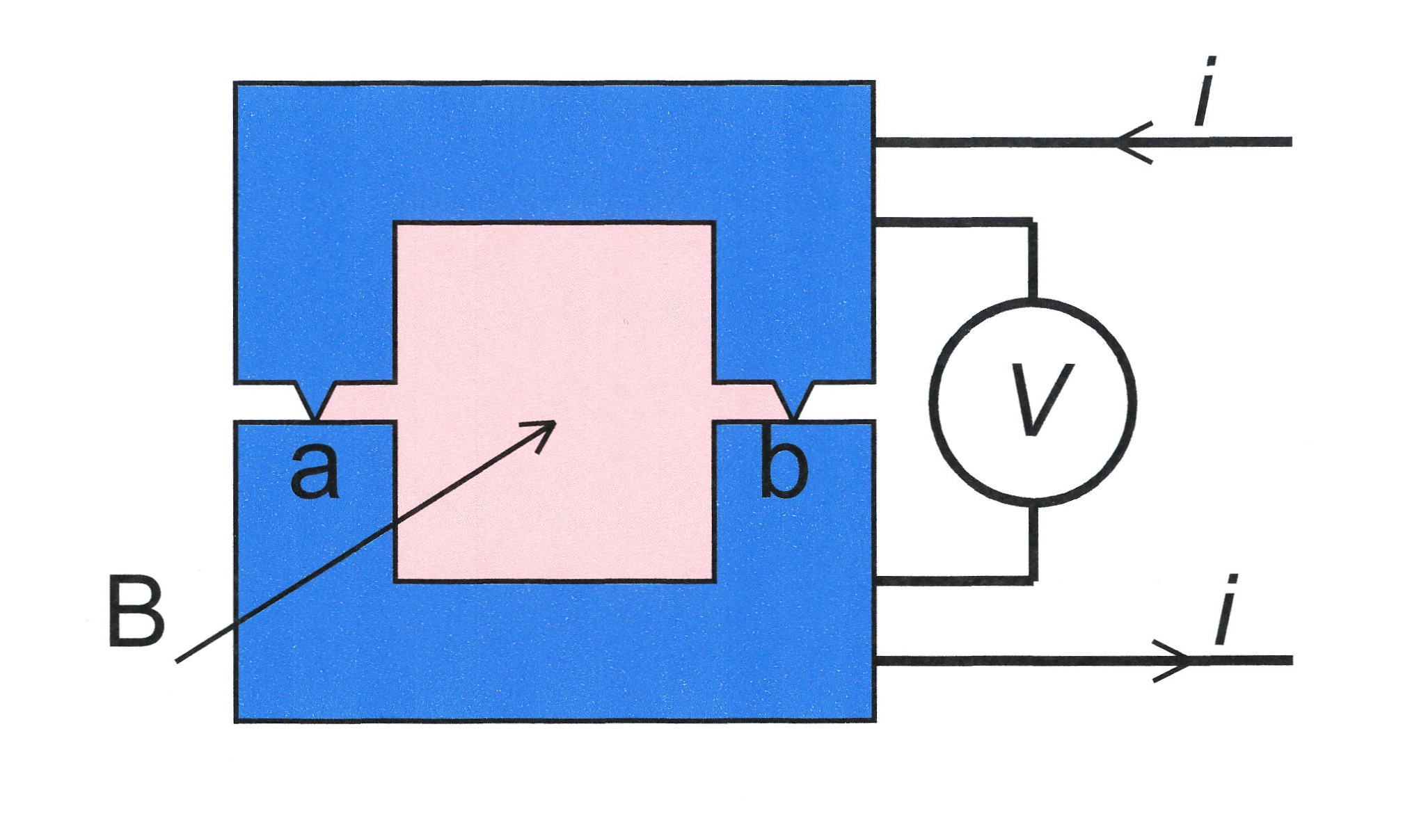 DC SQUID